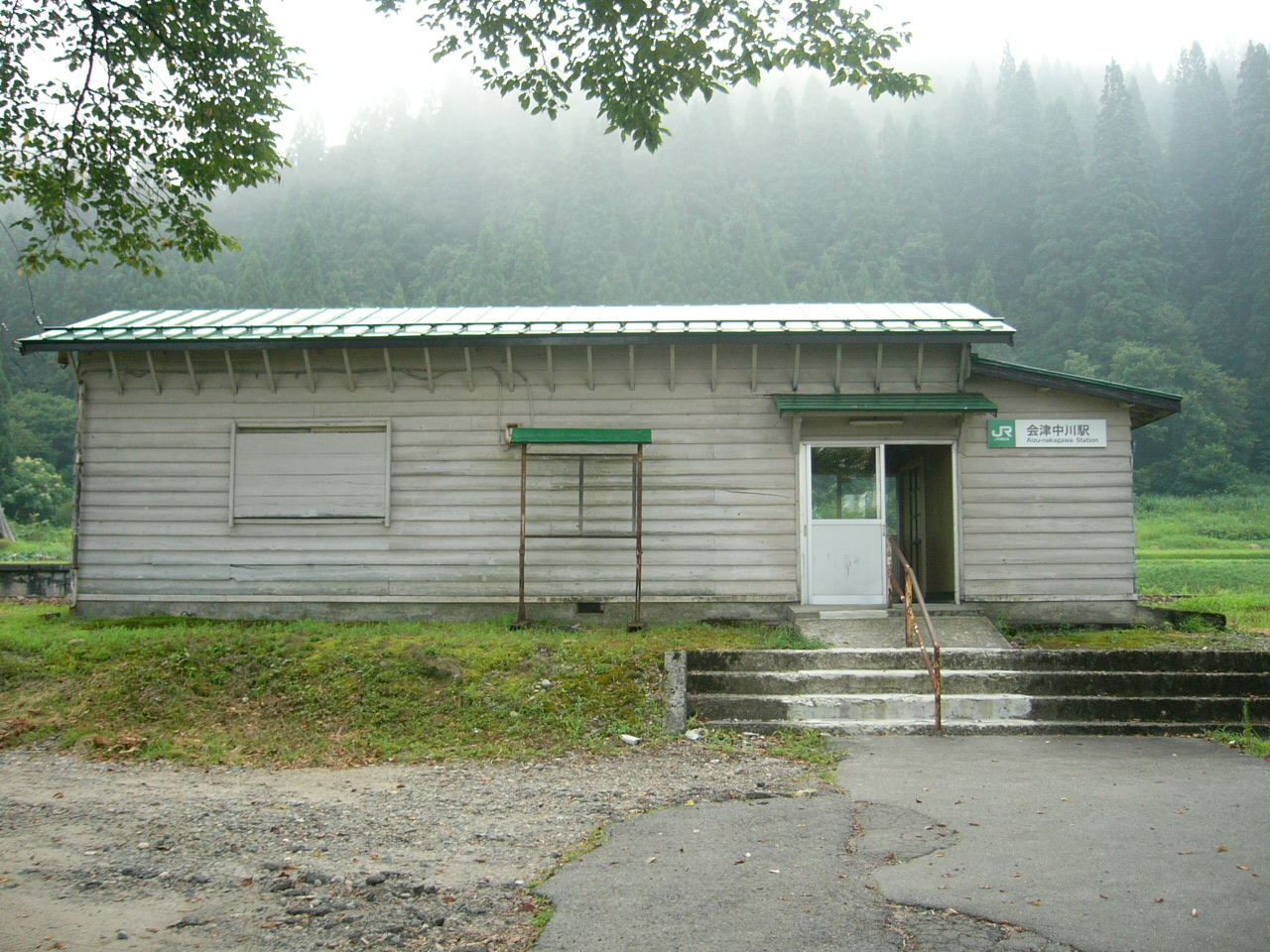 Aizu-Nakagawa Station